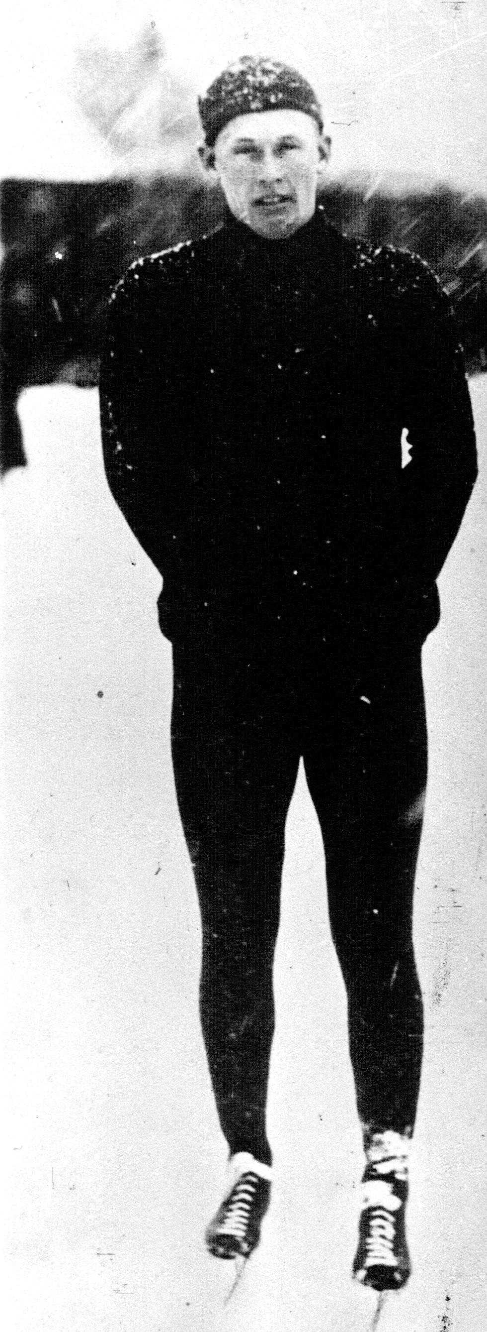 Picture of Hans Engnestangen